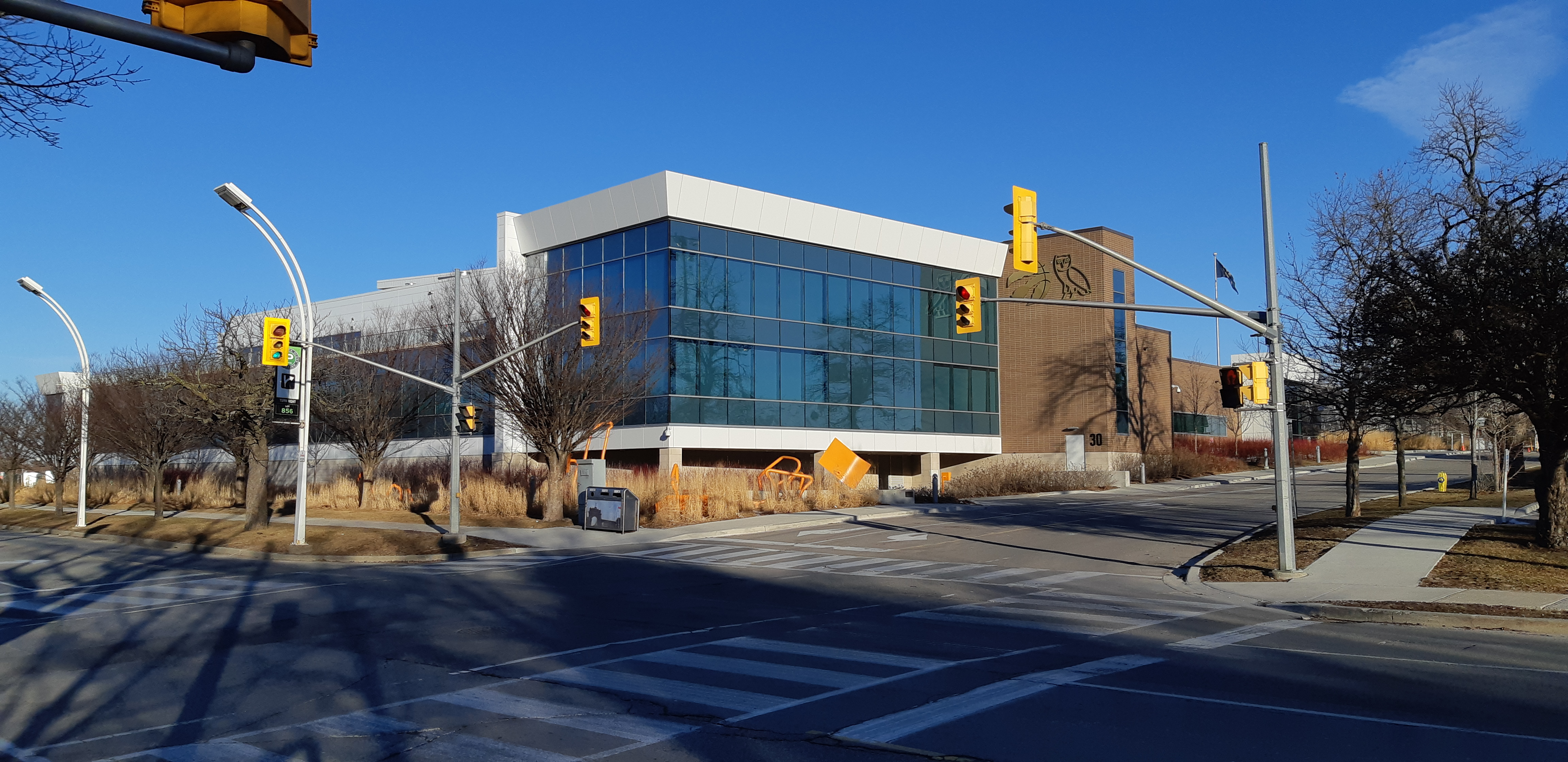 View of Raptors facility from the north-east, after rebranded as OVO Athletic Centre.